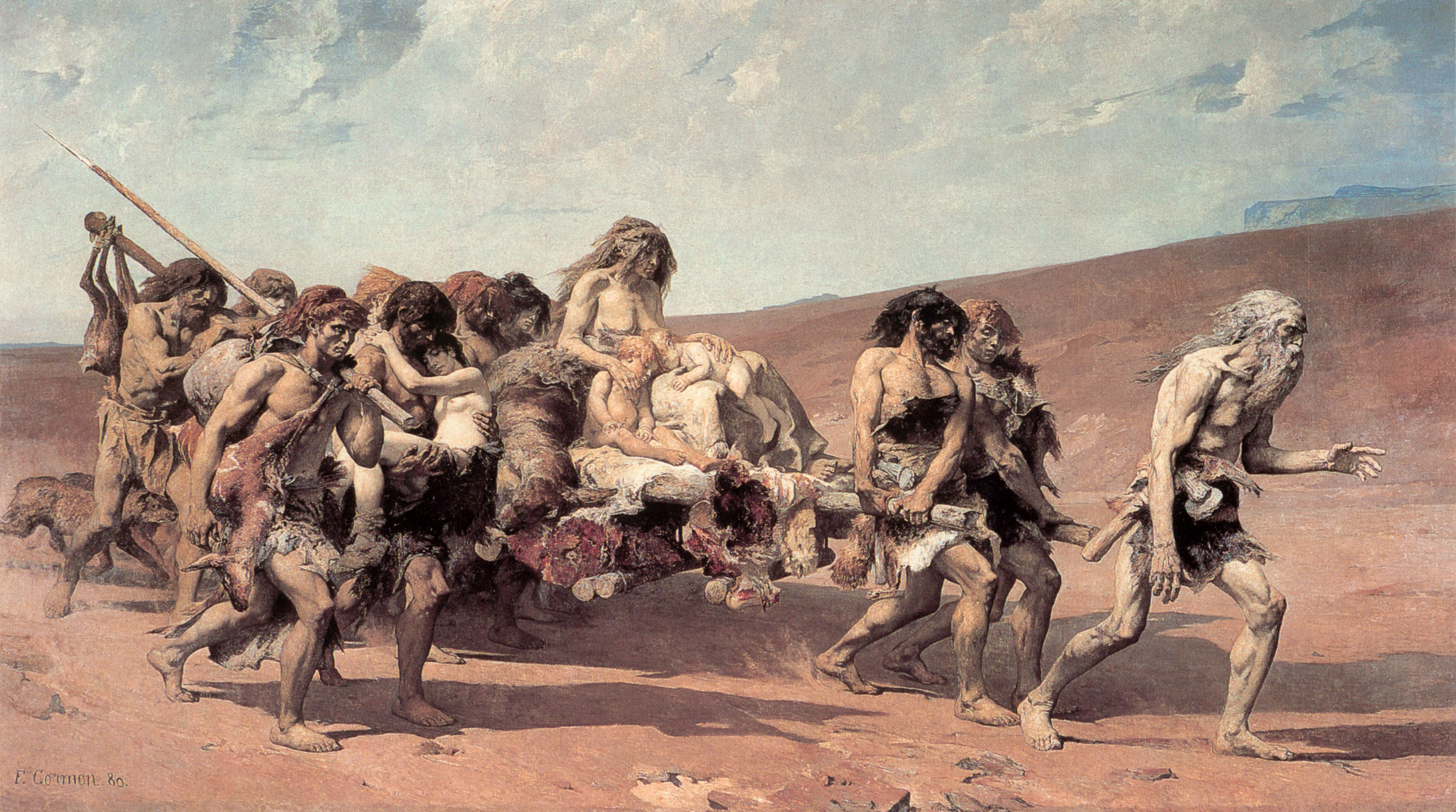 after Victor Hugo's description in "The Legend of the Ages"